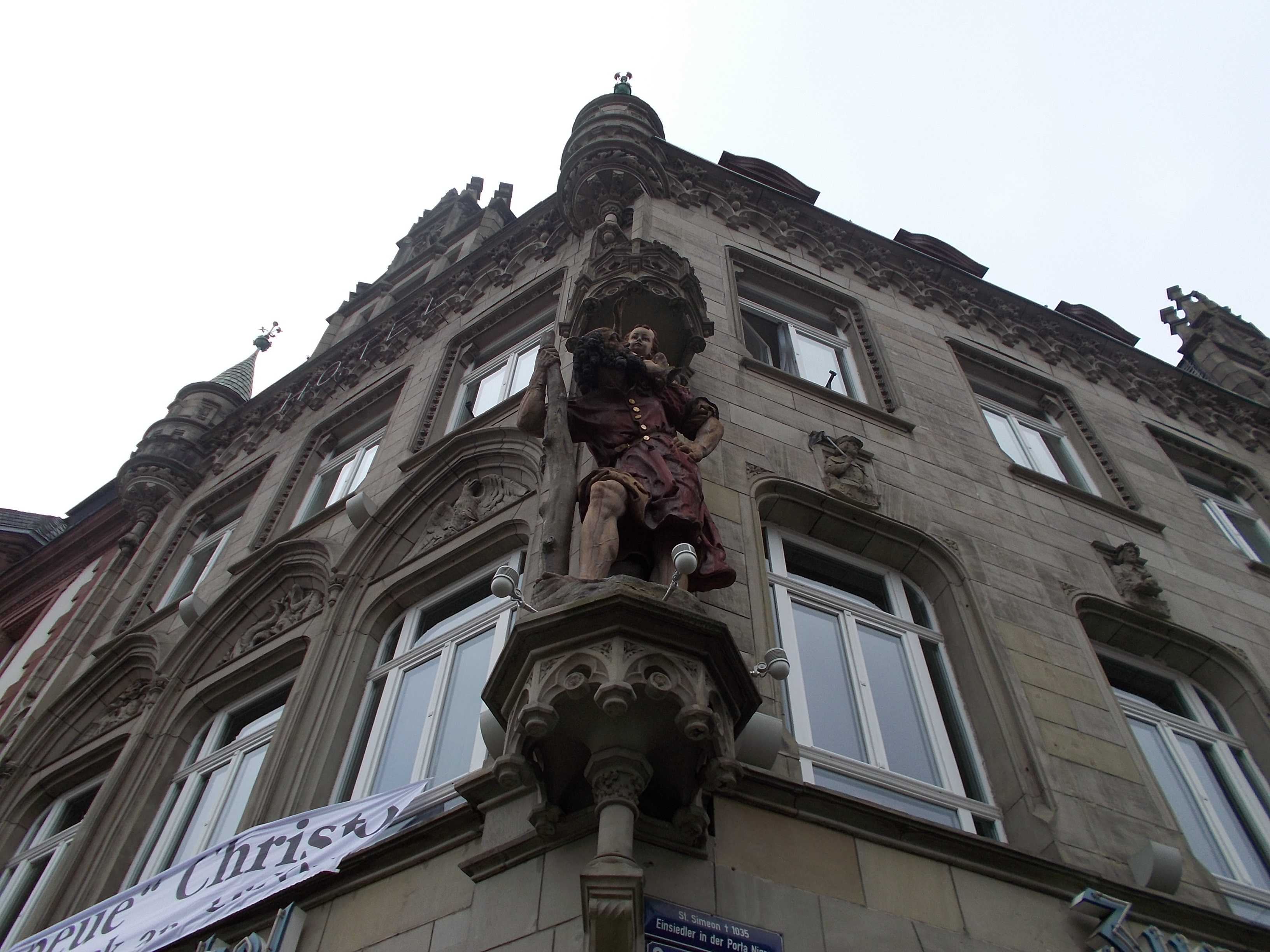 Statue of St.. Christopher at "Haus Christohel" (House Christopher), that gives Christophstraße (Christopher Street) its Name